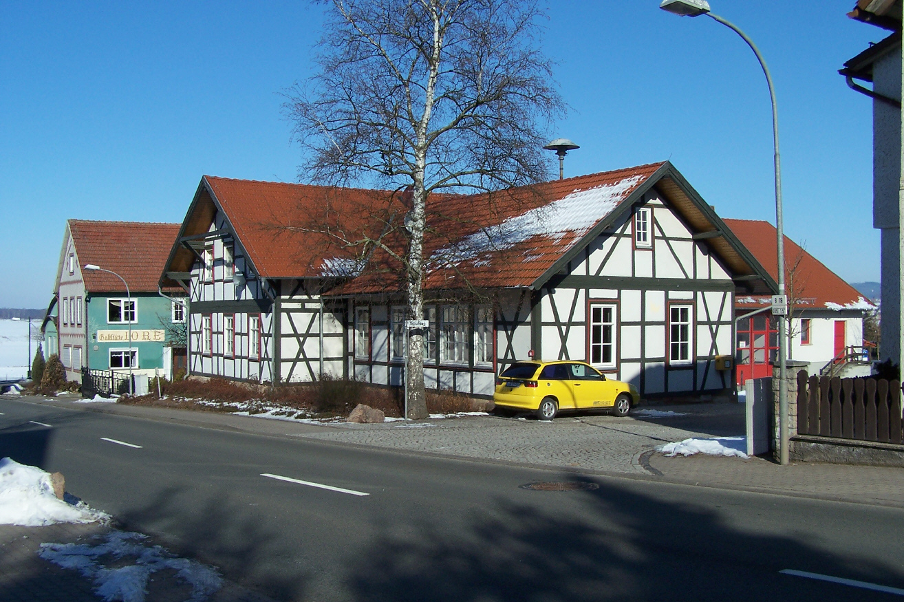 In Witzelroda village.